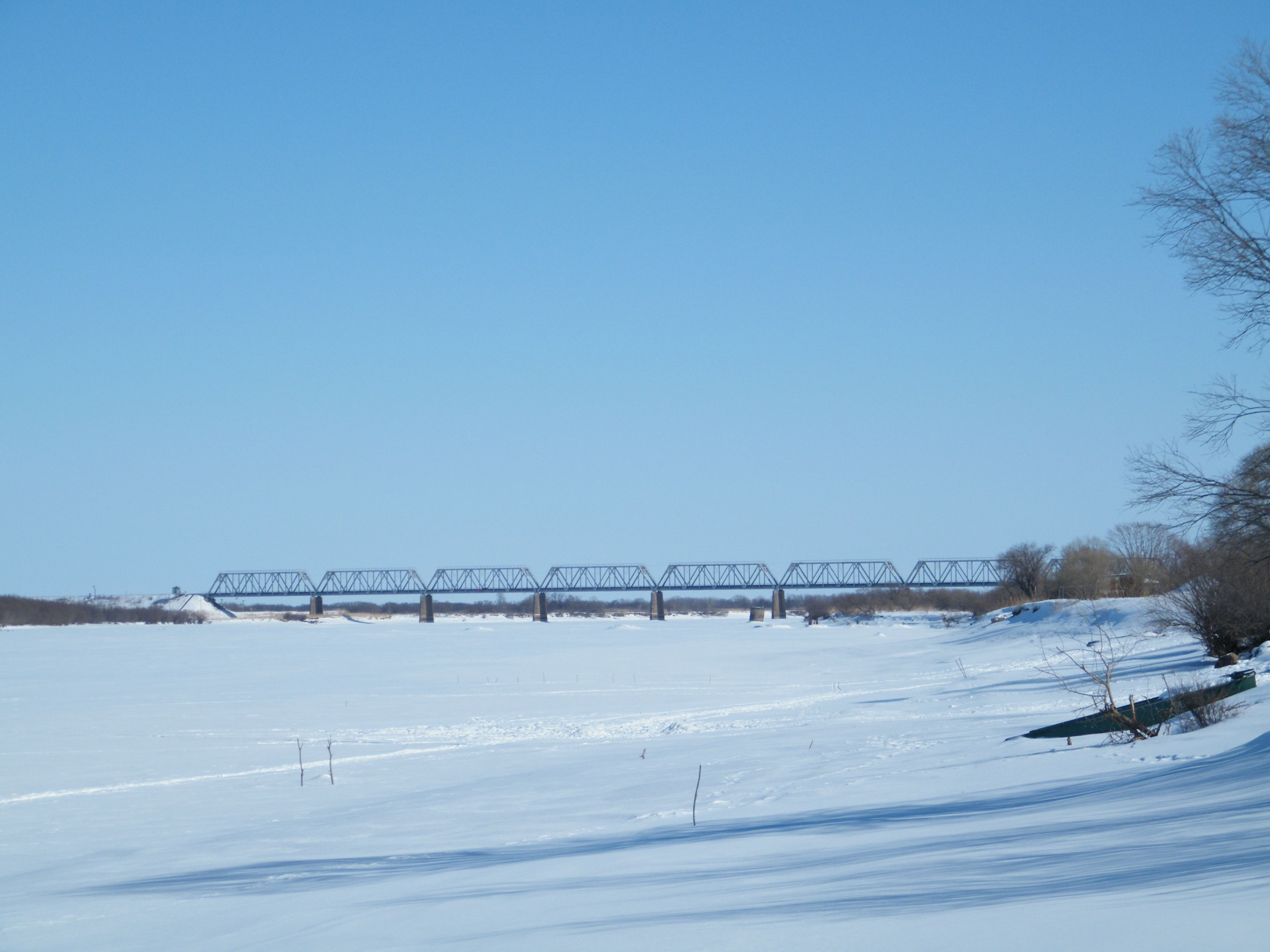 Tunguska EAO River